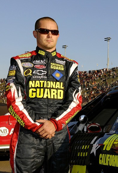 Casey Mears